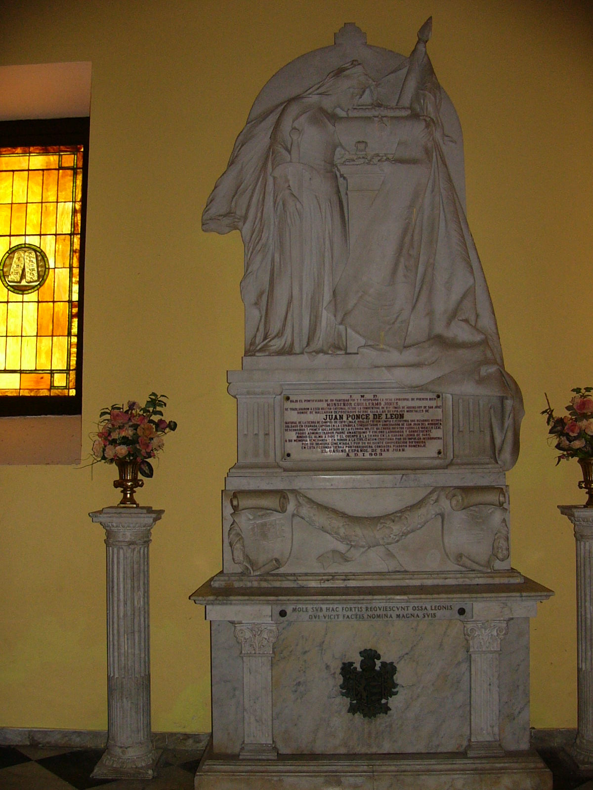 Tomb of Ponce de León in Cathedral of San Juan Bautista in San Juan, Puerto Rico